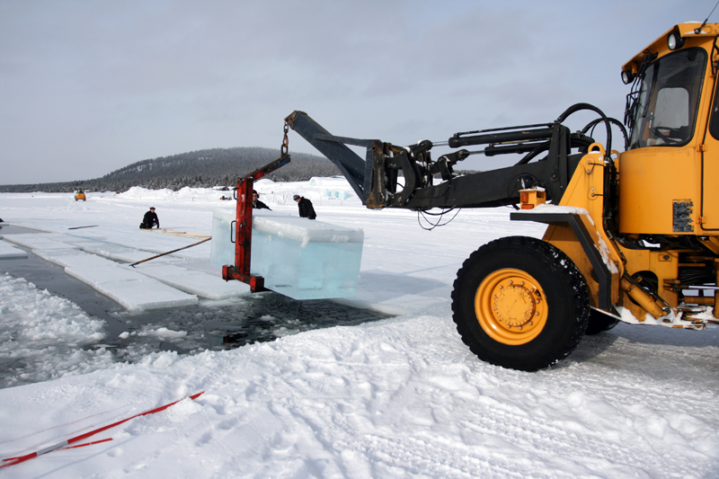 The ice harvest on Torne River, Jukkasjärvi, Sweden 2008.